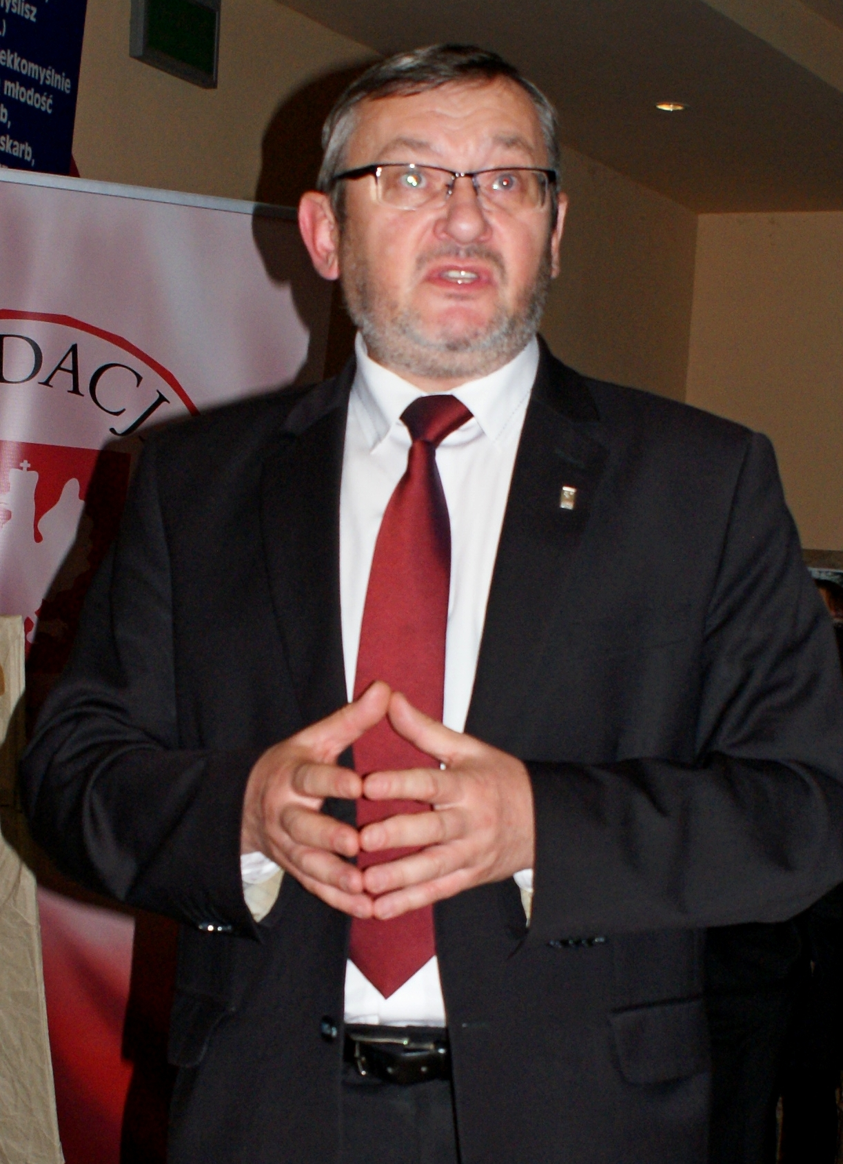 Leon Popek